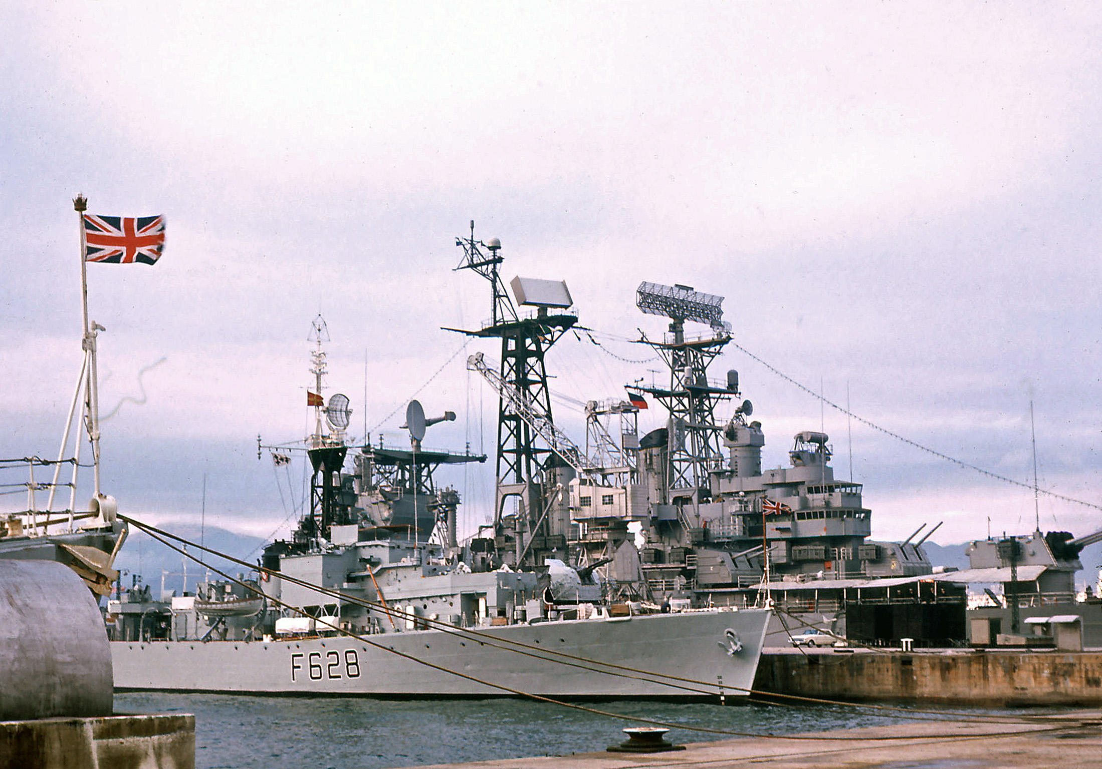 The Royal Navy frigate HMS Loch Killisport (F628) and the U.S. Navy guided missile cruiser USS Galveston (CLG-3) at Hong Kong, in January 1964.